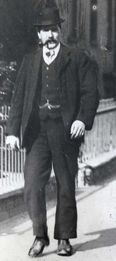 Henry Albert Pierrepoint (1878–1922) was one of the United Kingdom's executioners from 1901 until 1910. Photograph taken in 1909.